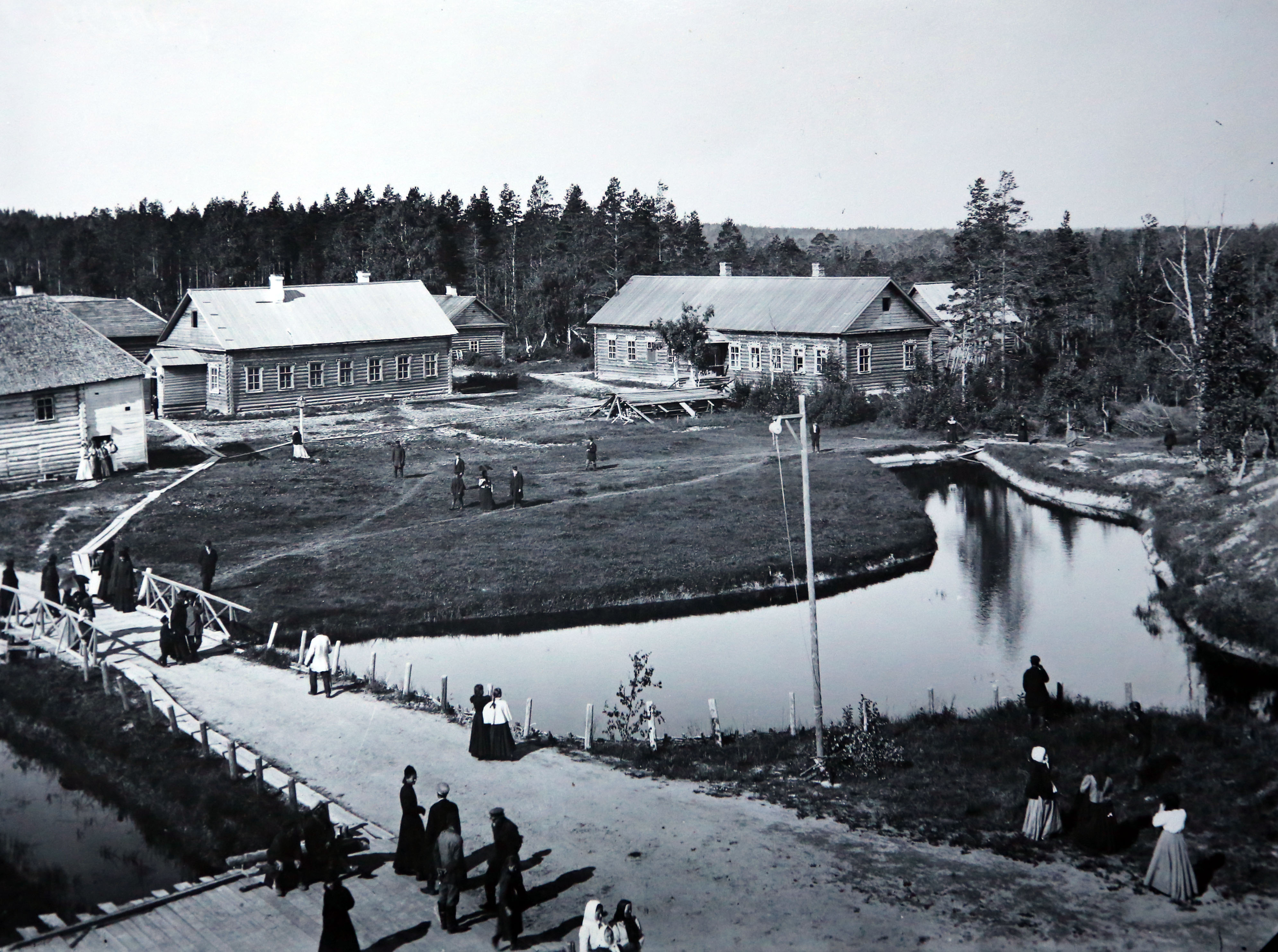 St.Macarius of Rome monastery in Novgorod eparchy